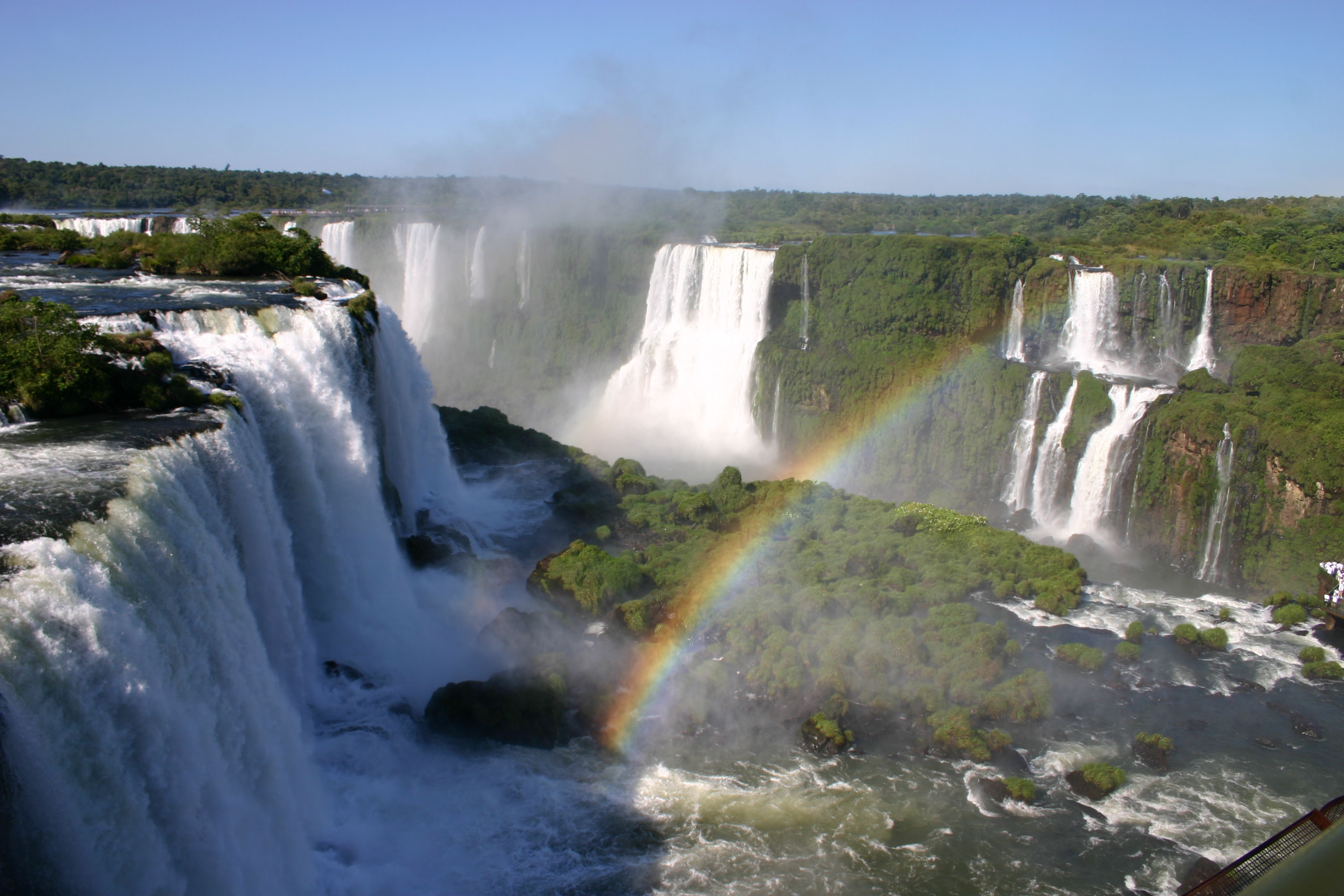 Iguassu falls from the Brazilian side. Photograph taken with a Canon EOS300D and Canon 55mm EF lens with Skylight 1B filter.